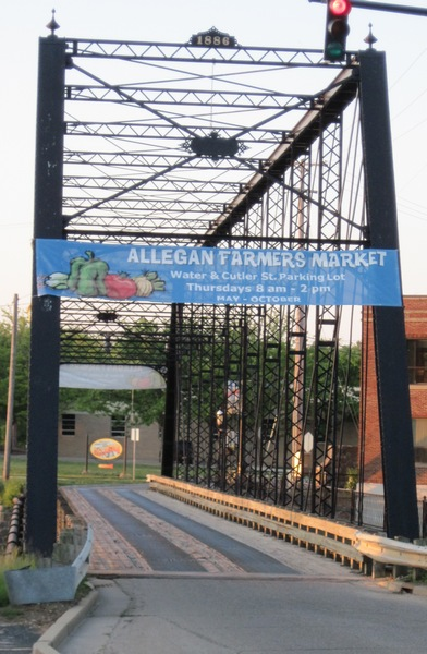 Second Street Bridge